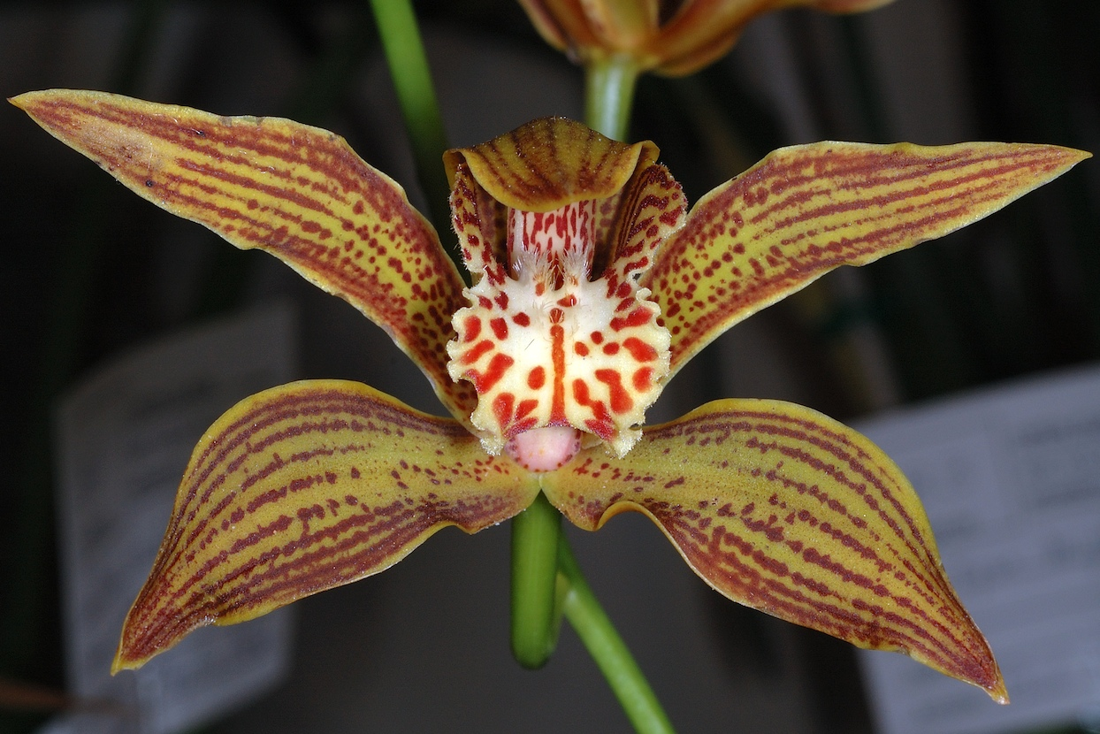 Species from the Himalayas